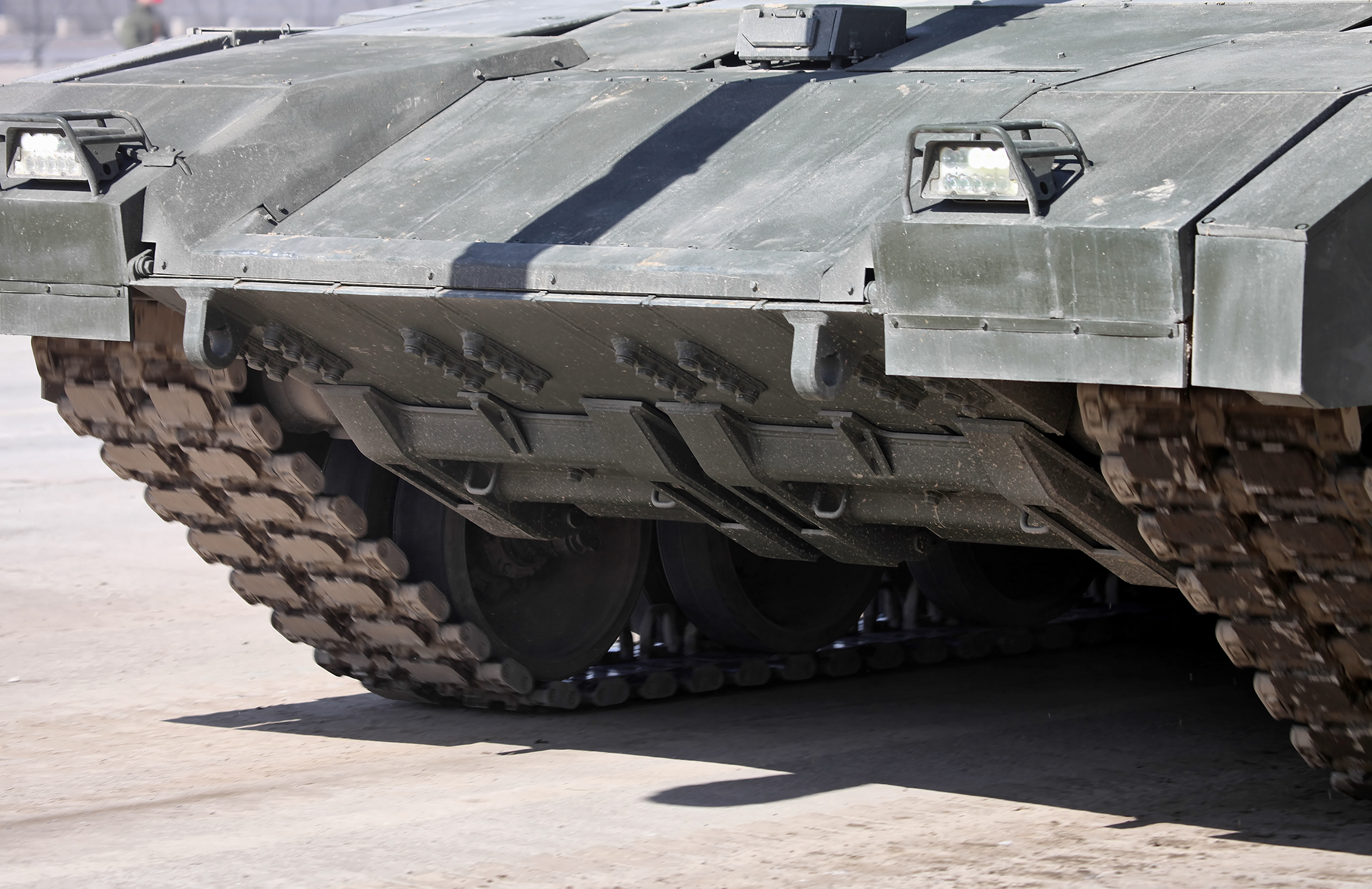 tank T-14 object 148 Armata (during the first open rehearsal in Alabino)